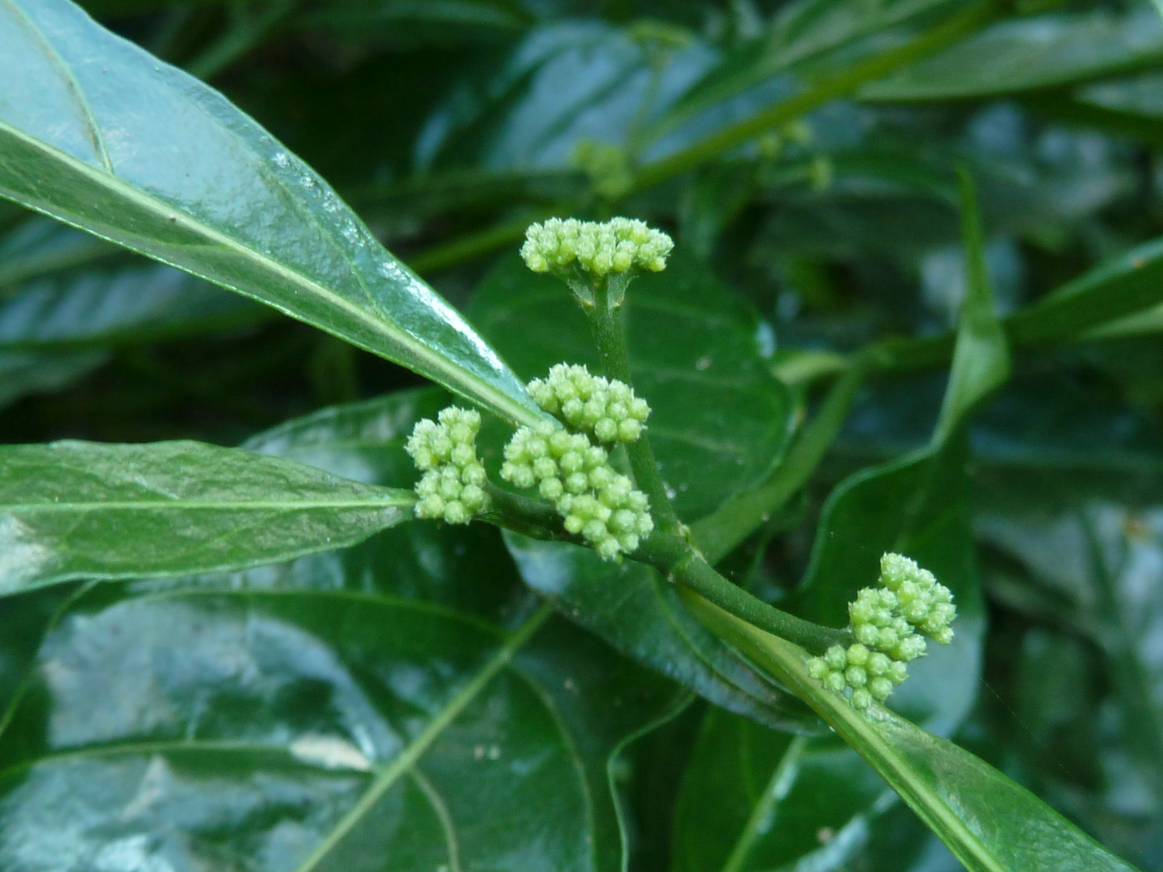 Flower buds of a False bride's-bush in Krantzkloof Nature Reserve, KwaZulu-Natal